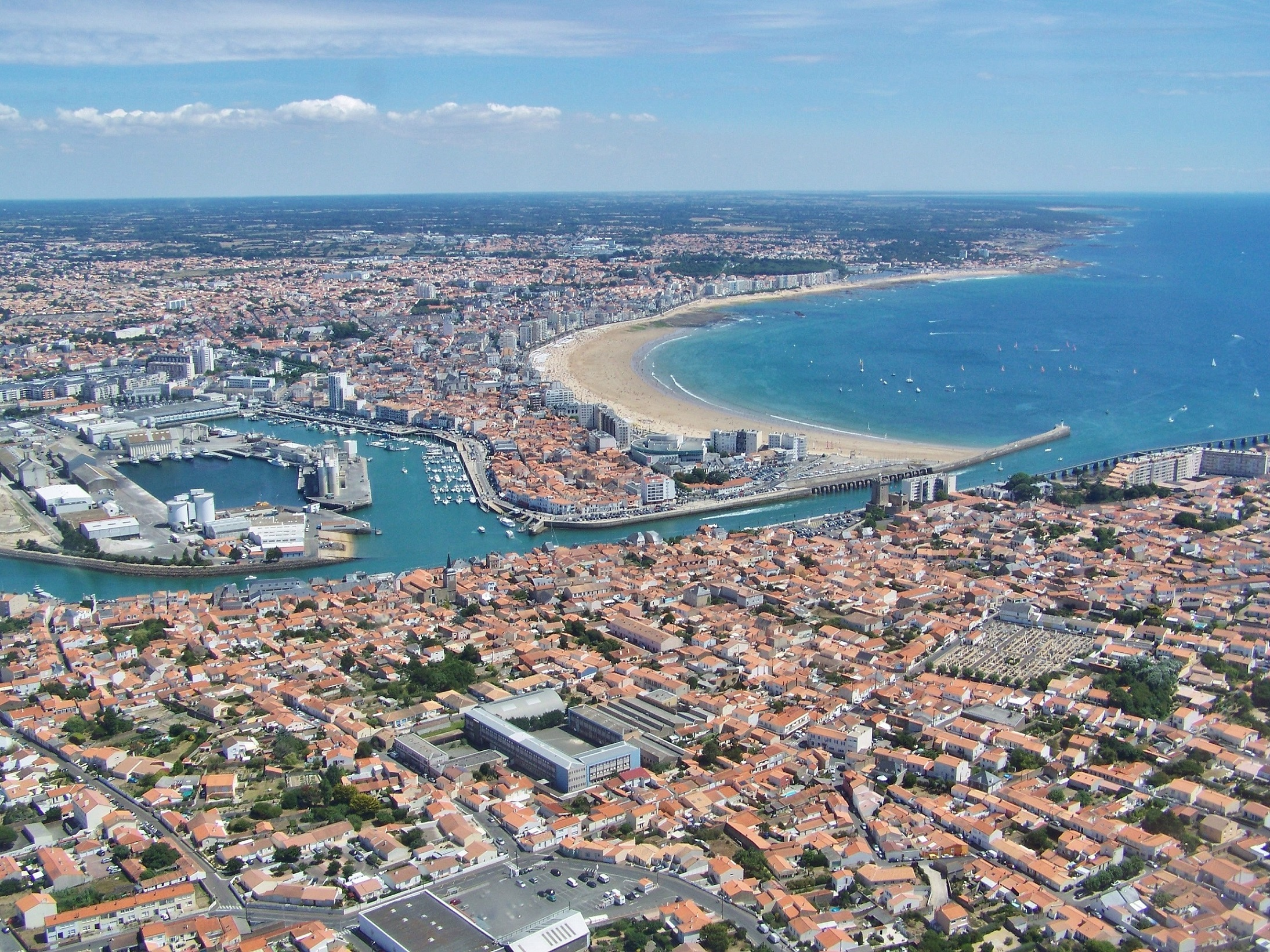 Aerian sight of Les Sables-d'Olonne, in Vendée, on the French Atlantic coast.